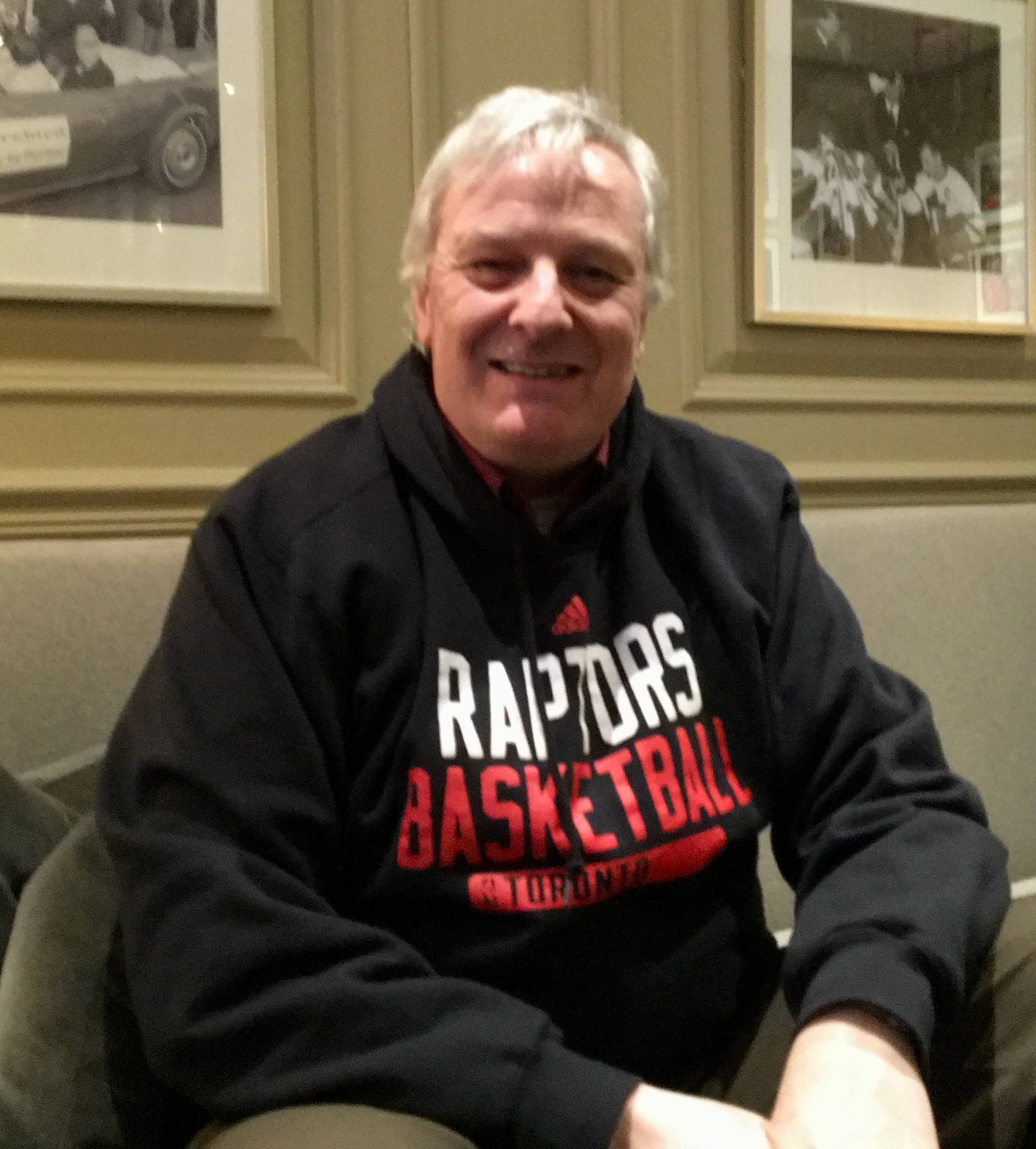 Jim Woodgett (at Toronto Raptors game)